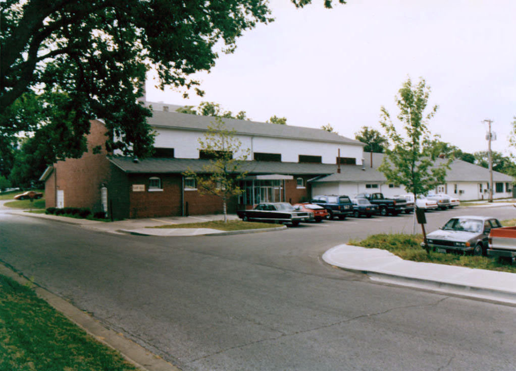 Photo provided by the United States Army Combined Arms Research Library Archives, Fort Leavenworth, Kansas. Date Unknown.